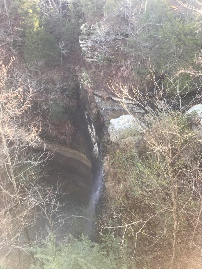 Image of Bridal Veil Falls (Arkansas)